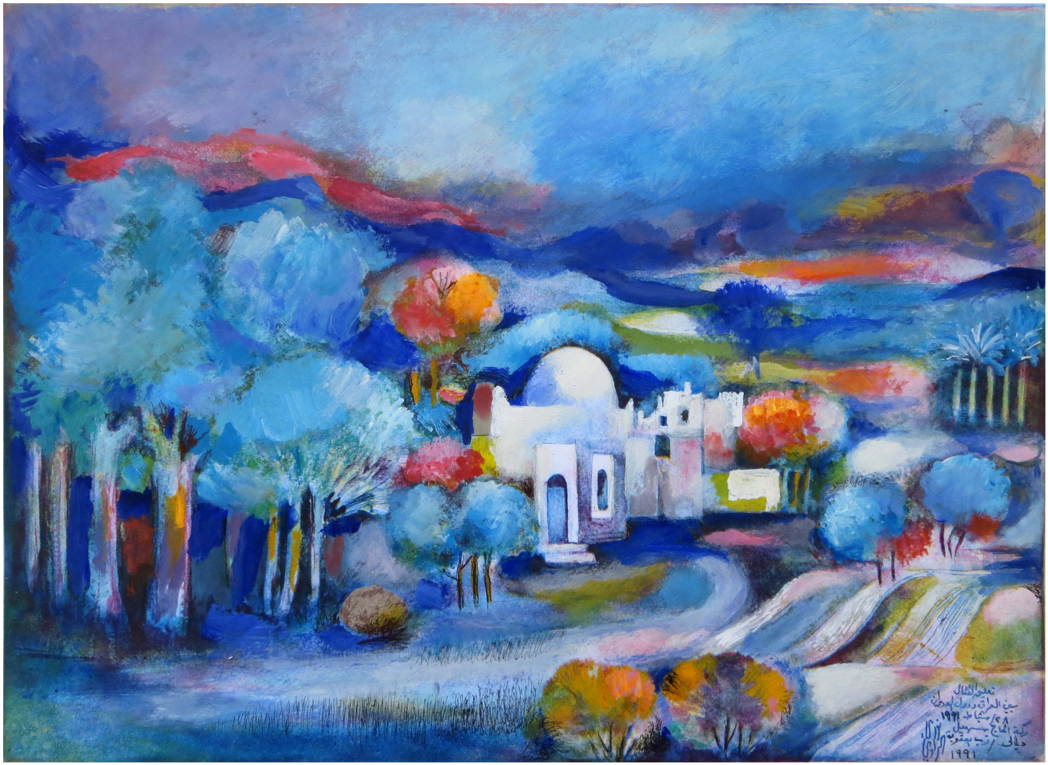 Of the works of the artist Noori AlRawi